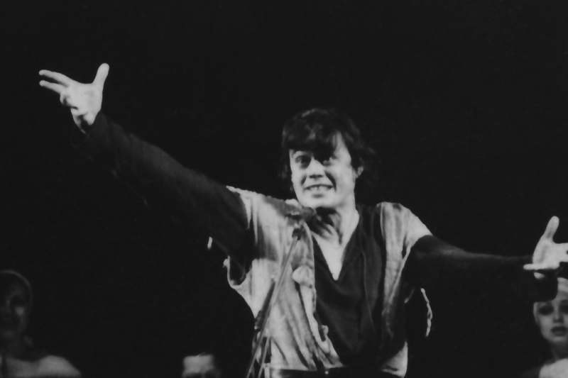 Lenkom Theatre.